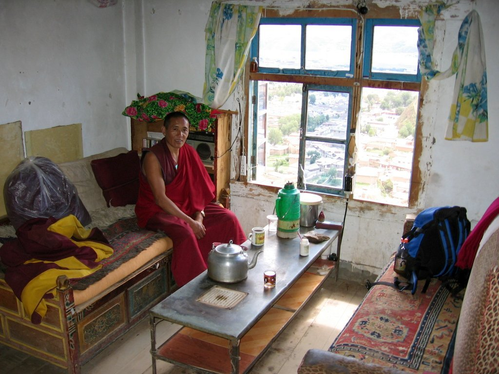 Kandze Gompa, Ganzi Si or Ganzi monastery. Home of more than 500 Gelupka monks. Was built in 17th century.